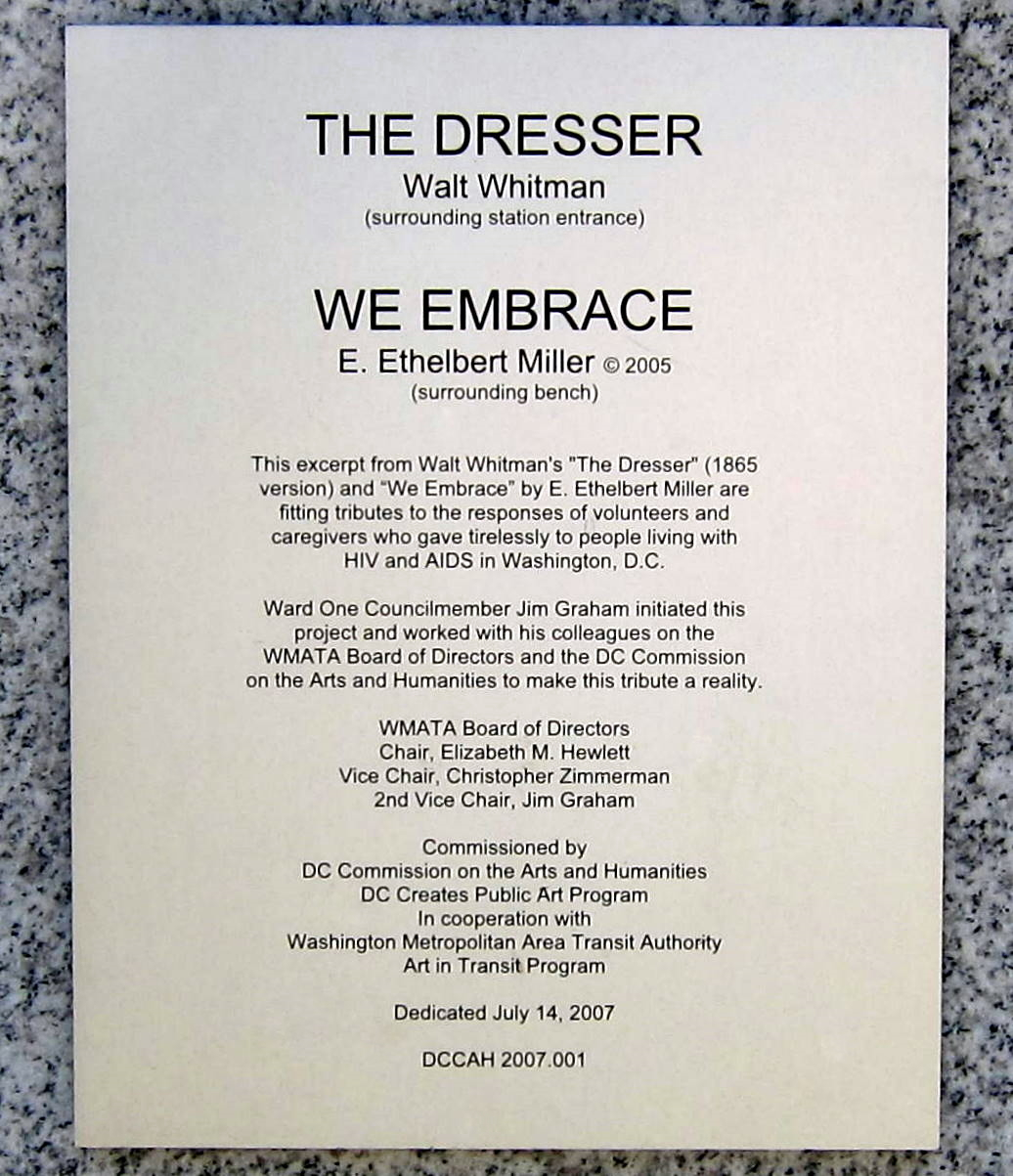 A sign on the north entrance to the Dupont Circle Metro station in Washington, D.C. An excerpt from The Wound-Dresser, by Walt Whitman, is inscribed into the granite wall around the entrance escalators. An excerpt from We Embrace, by E. Ethelbert Miller, is inscribed into the sidewalk surrounding a nearby circular bench.